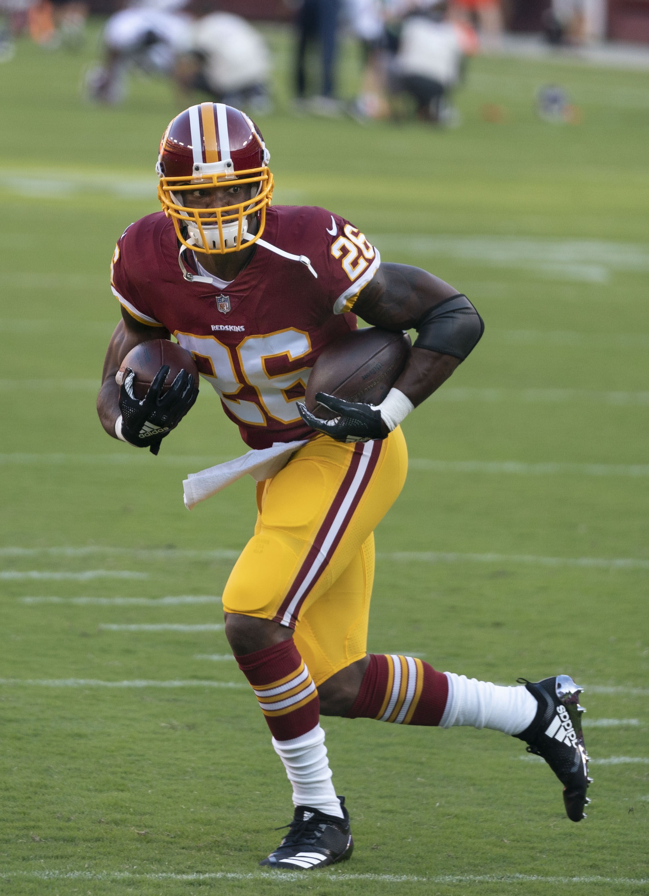 Broncos at Redskins 8/24/18